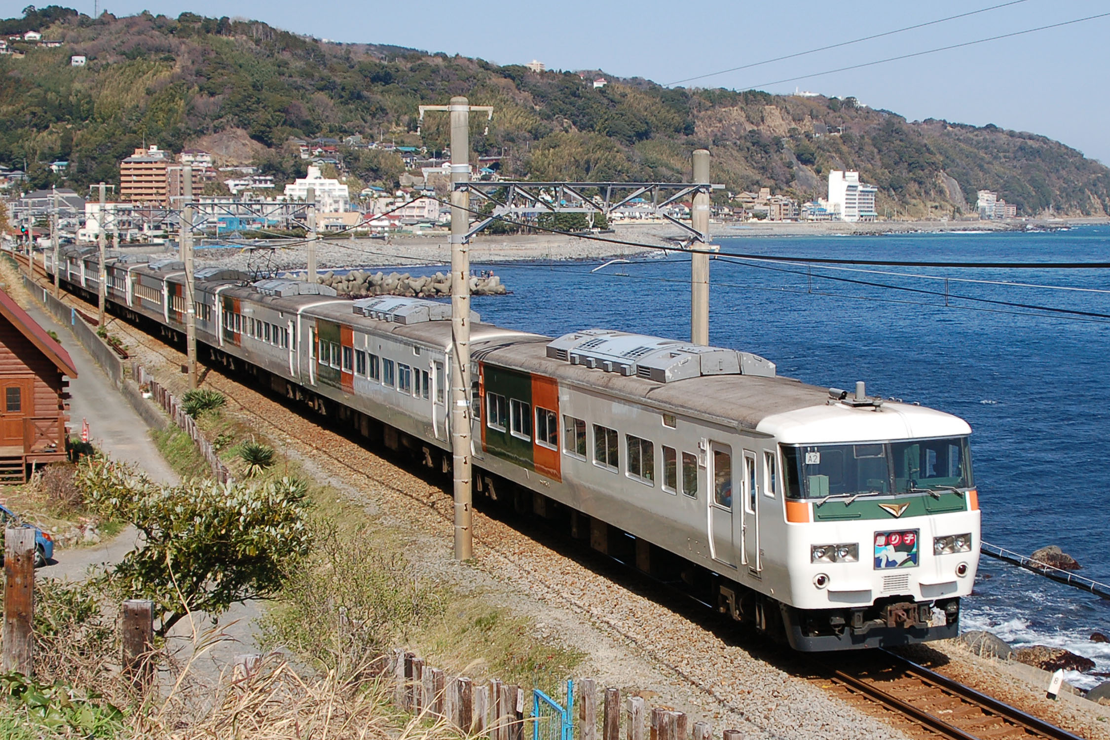 A JR East 185 series EMU on an Odoriko limited express service